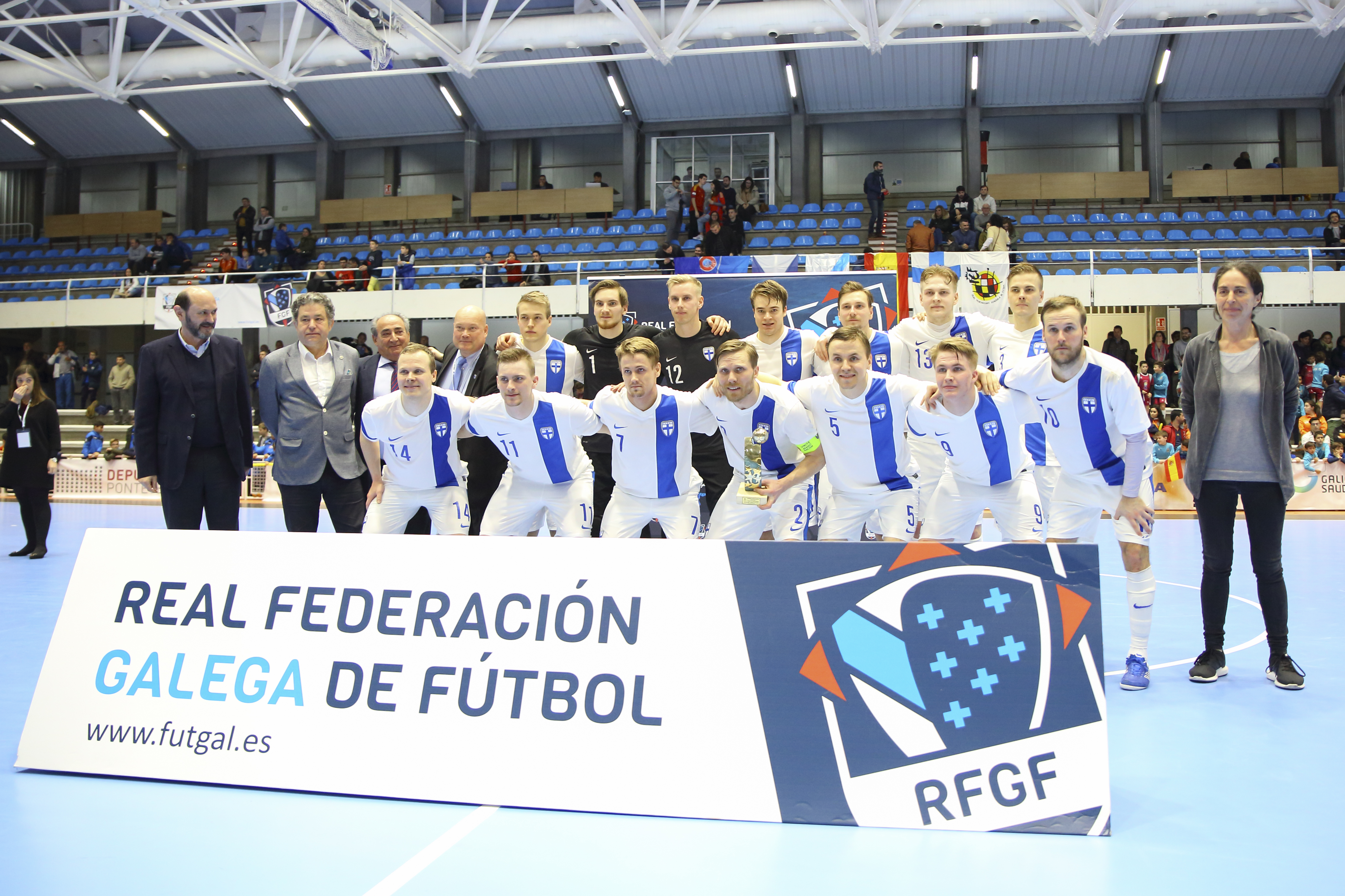 Futsal international friendly match between Spain and Finland at Pabellon Municipal de Pontevedra on April 2, 2018 in Pontevedra, Spain.